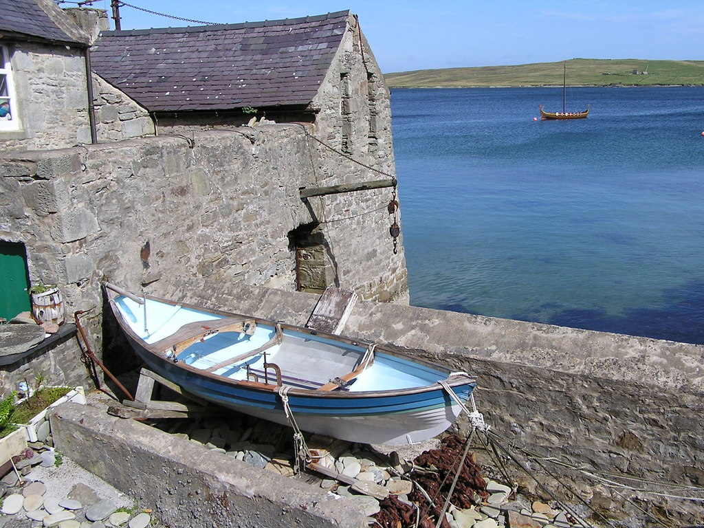 The Lodberrie, Commercial Street